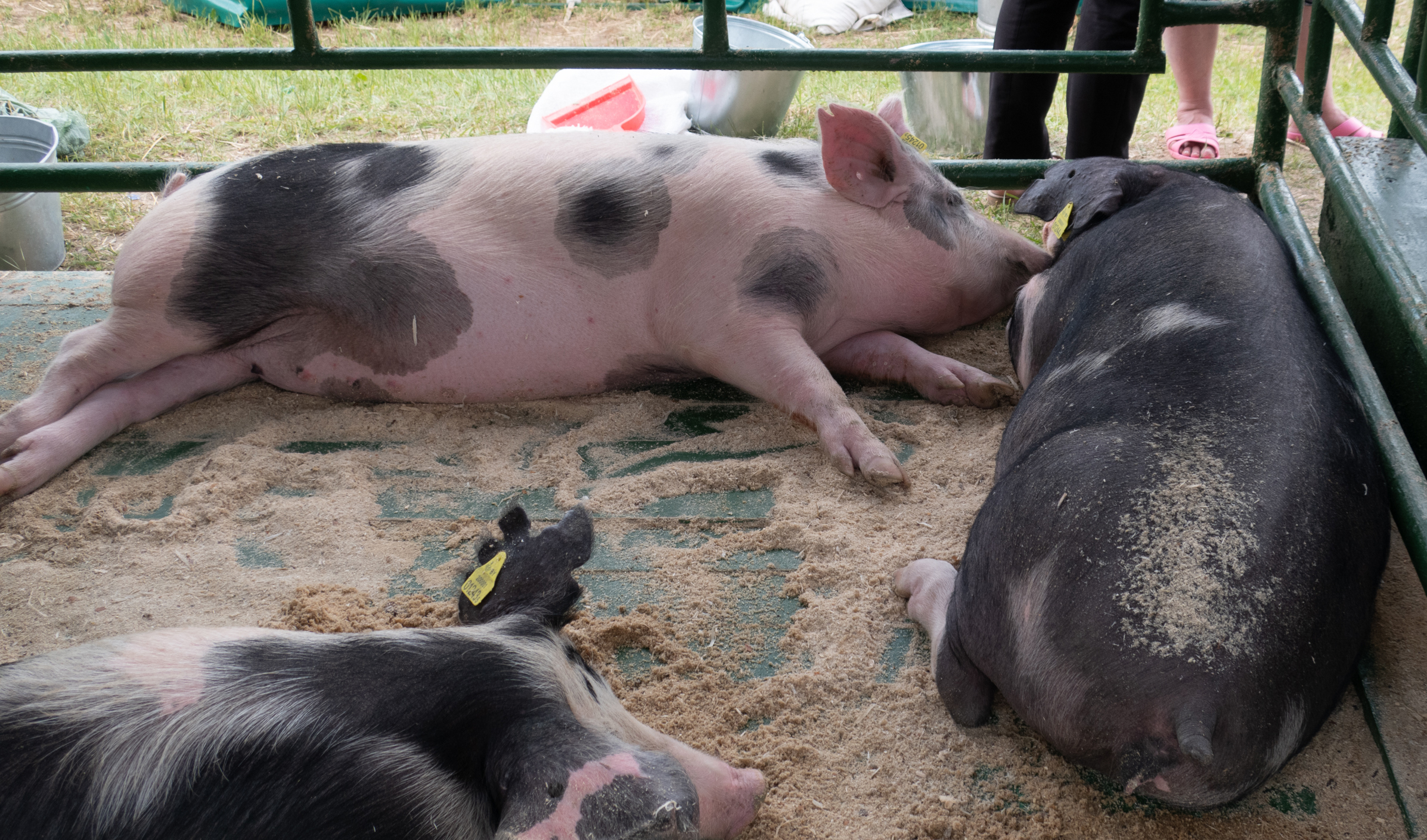 Photo taken at Belagro-2019 exhibition (Minsk district, Belarus)